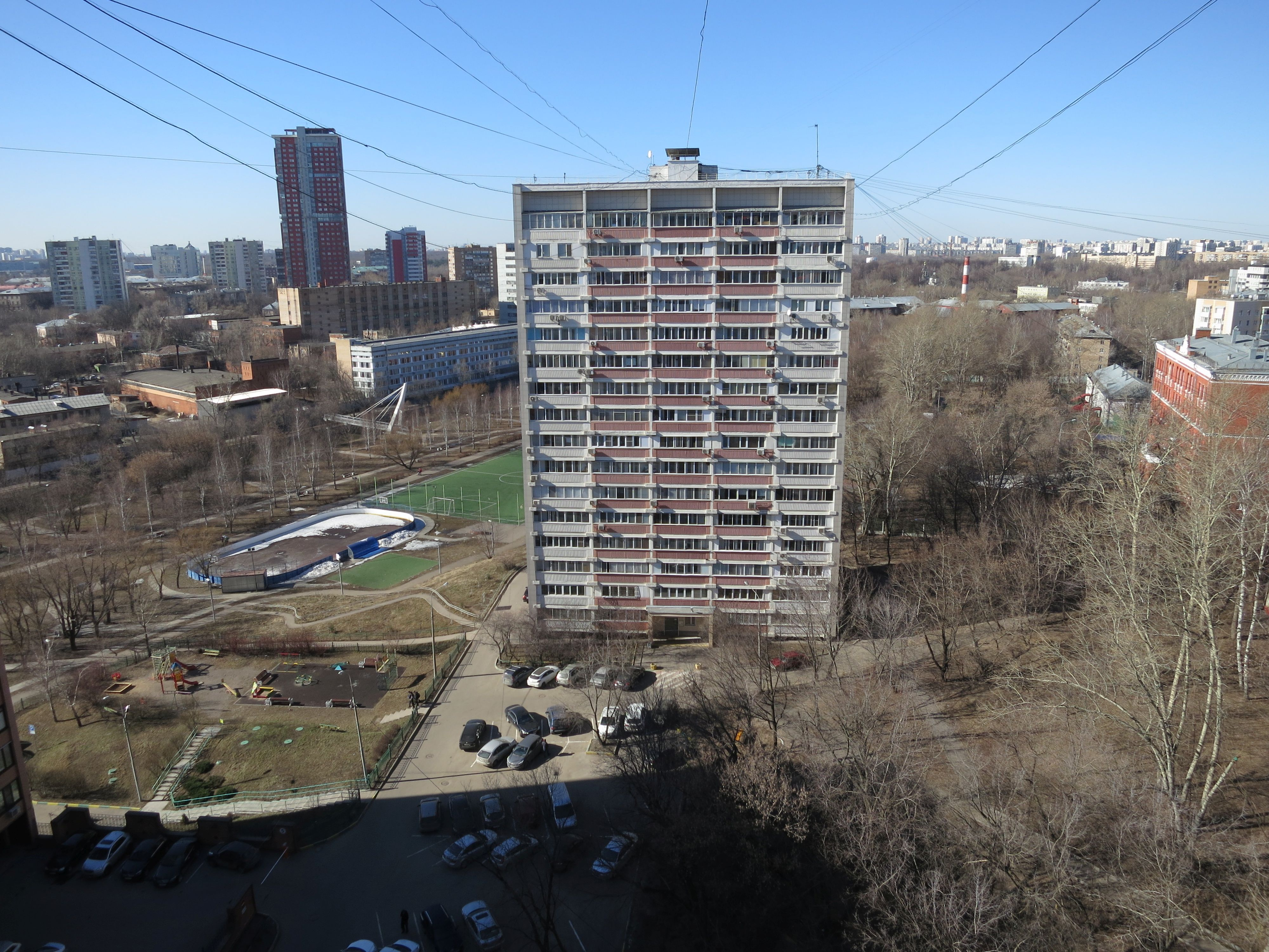 Проектируемый проезд 690 Москва. Квартал по западную сторону проспекта Мира за Яузой (видна слева). В центре дом по Мира 163 к.1